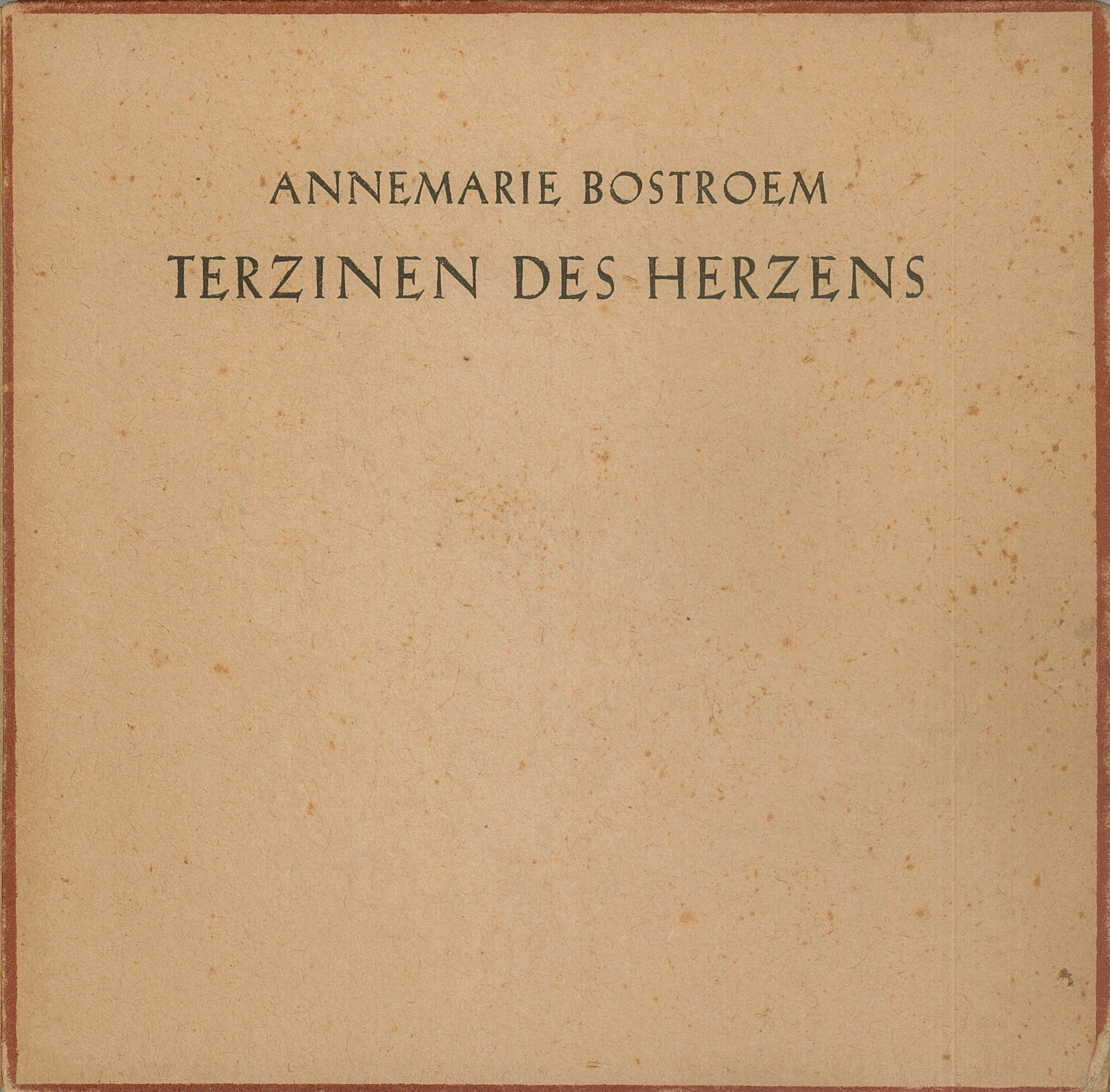 Book cover of Annemarie Bostroem, "Terzinen des Herzens" 1947